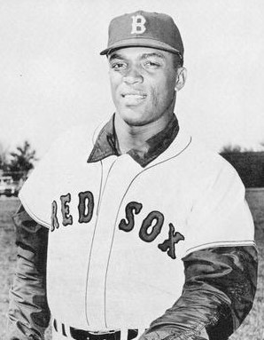 Professional baseball player Earl Wilson